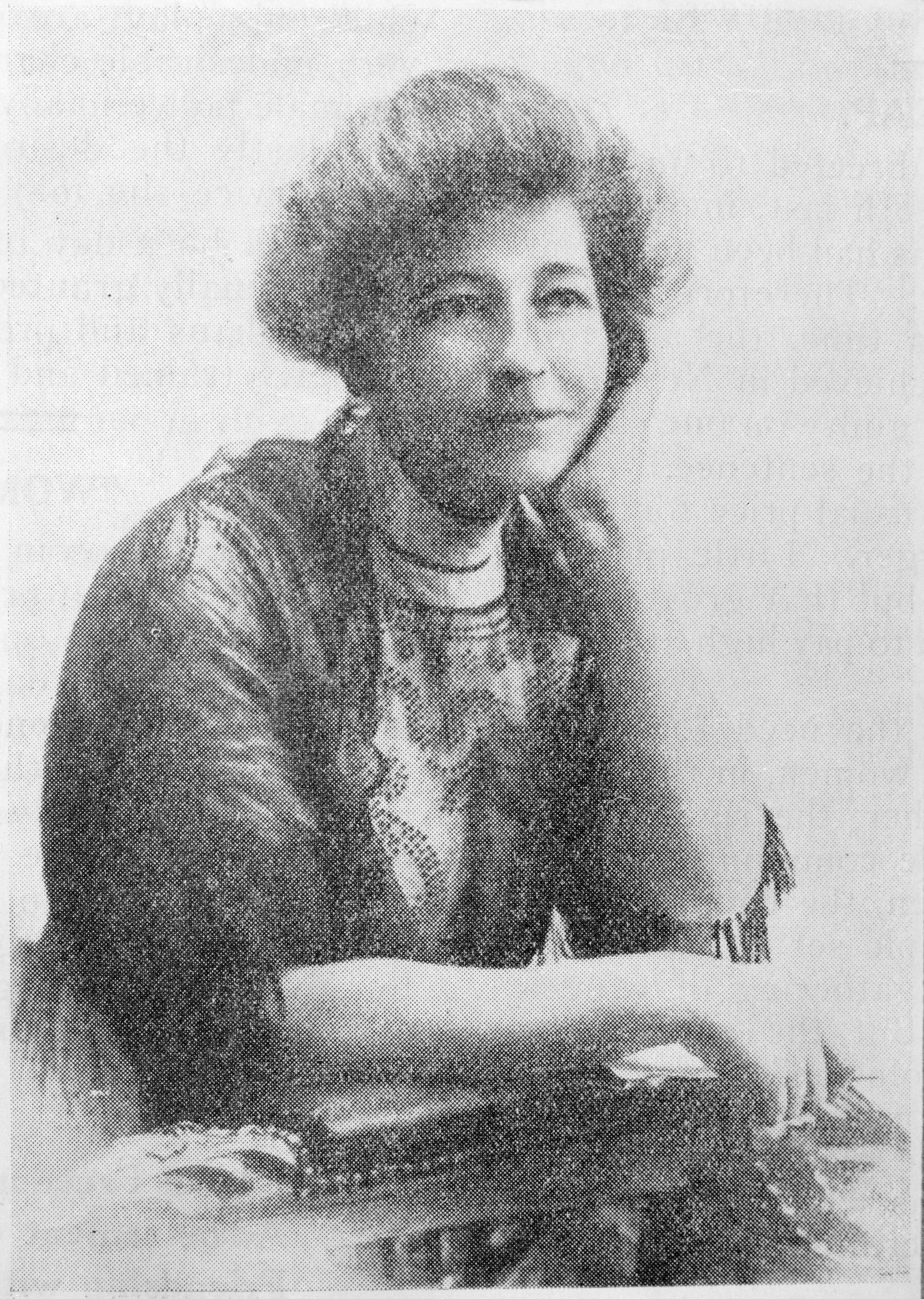 Photograph of Ada Wells from 'Woman Today' magazine, issue 1 June 1937. Original photograph taken circa 1910 by an unidentified photographer.